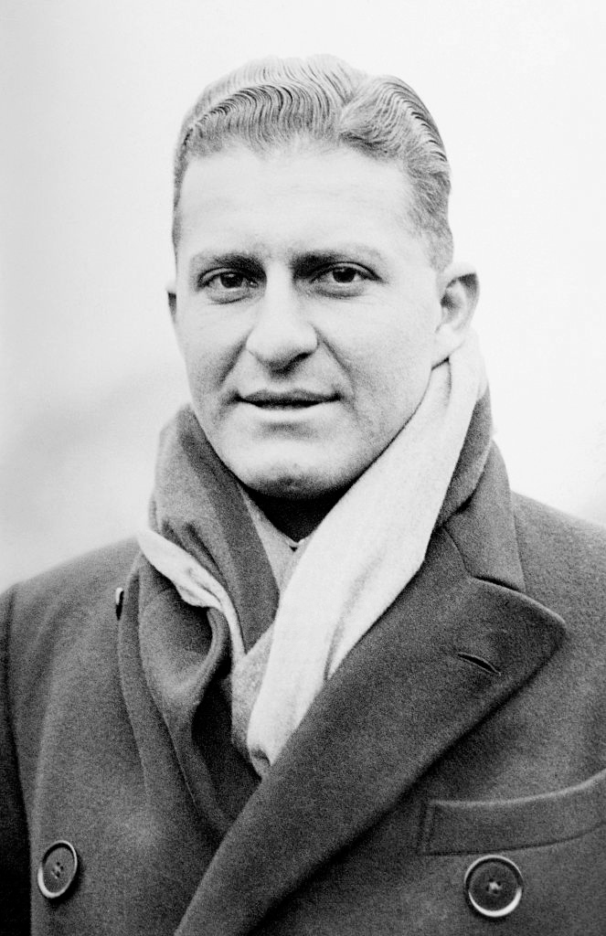 Xen Balaskas, a member of the South Africa cricket team which toured England in 1935. South Africa won the Test series 1-0 with four draws, their first series win in England.